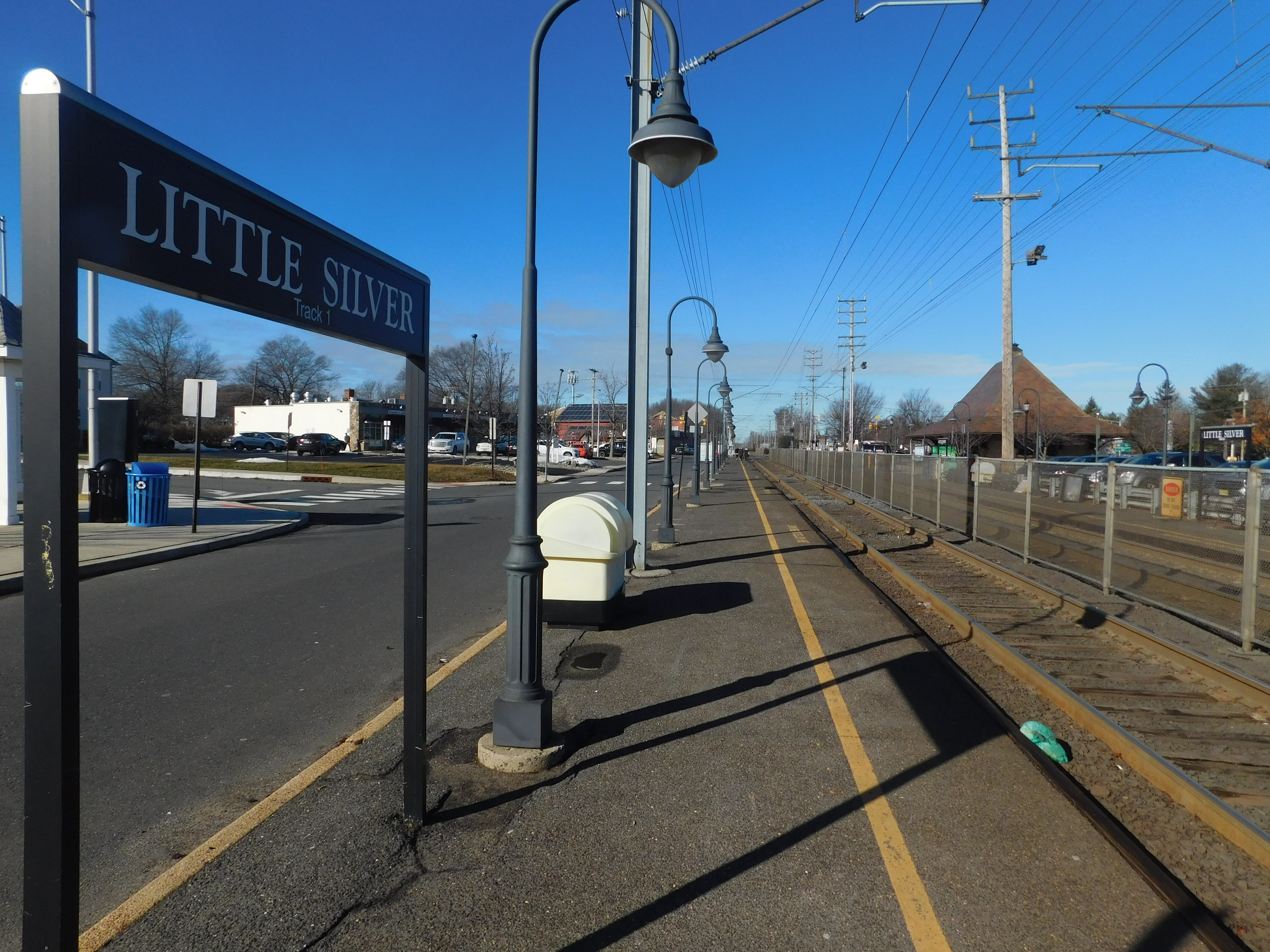 The station platform at Little Silver in Little Silver, New Jersey.